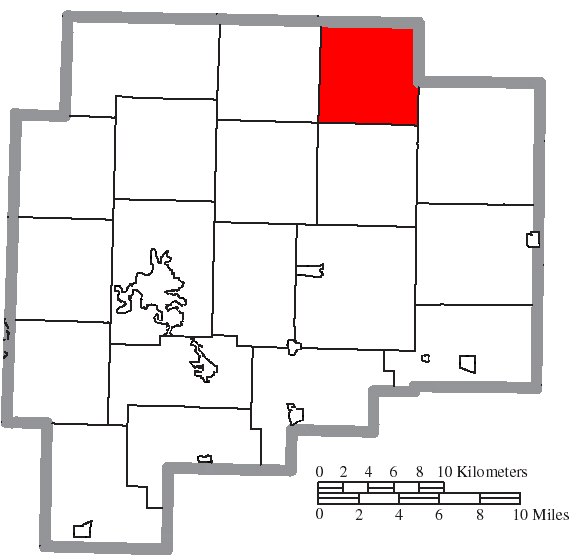 Map of the municipal and township boundaries of Guernsey County, Ohio, United States, as of the 2000 census, with the location of Washington Township highlighted. Township borders are shown only in unincorporated areas in order to differentiate incorporated and unincorporated areas more clearly.